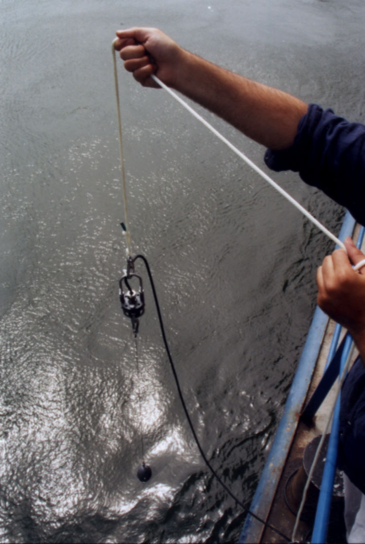 An over-the-side acoustic transducer for positioning or control/communication functions is lowered over the side of a boat.